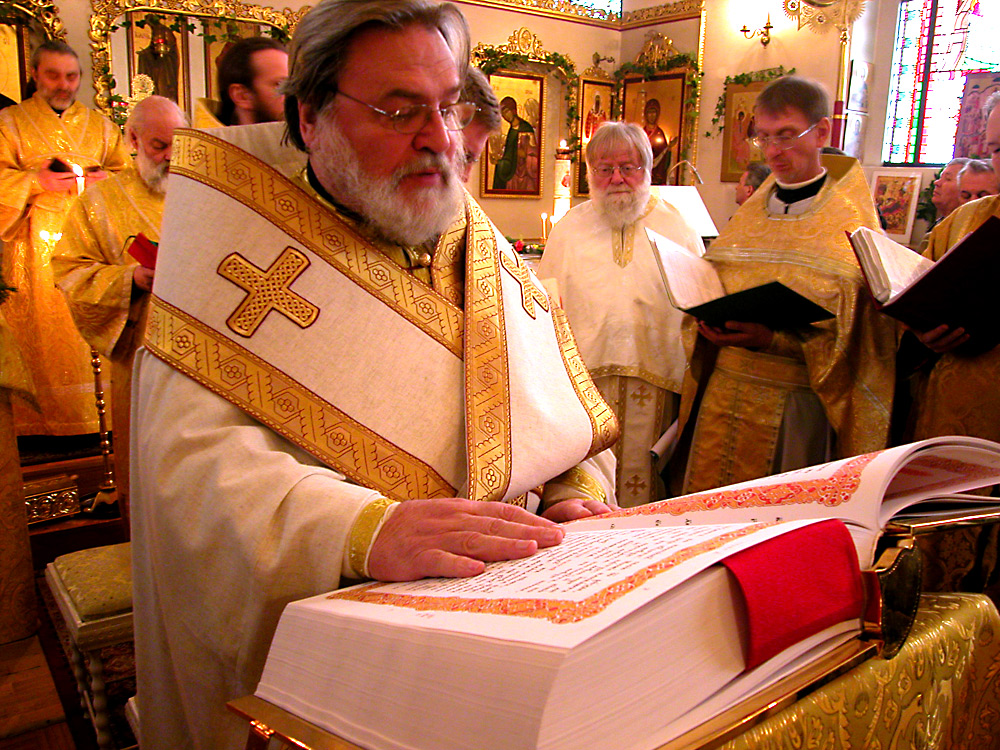 Liturgy of St James. Russian Orthodox Church in Duesseldorf.